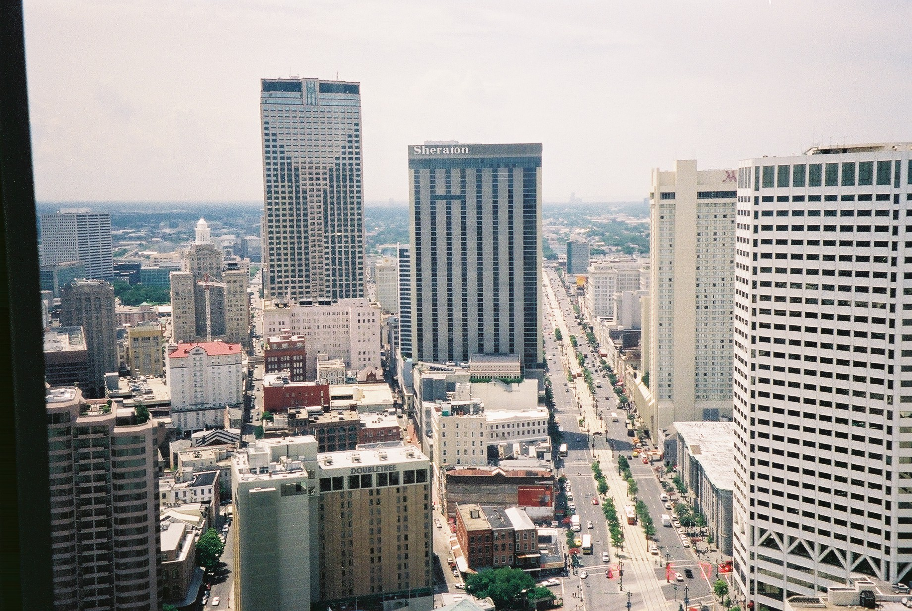 Canal Street, New Orleans, looking lakewards from near the riverfront.